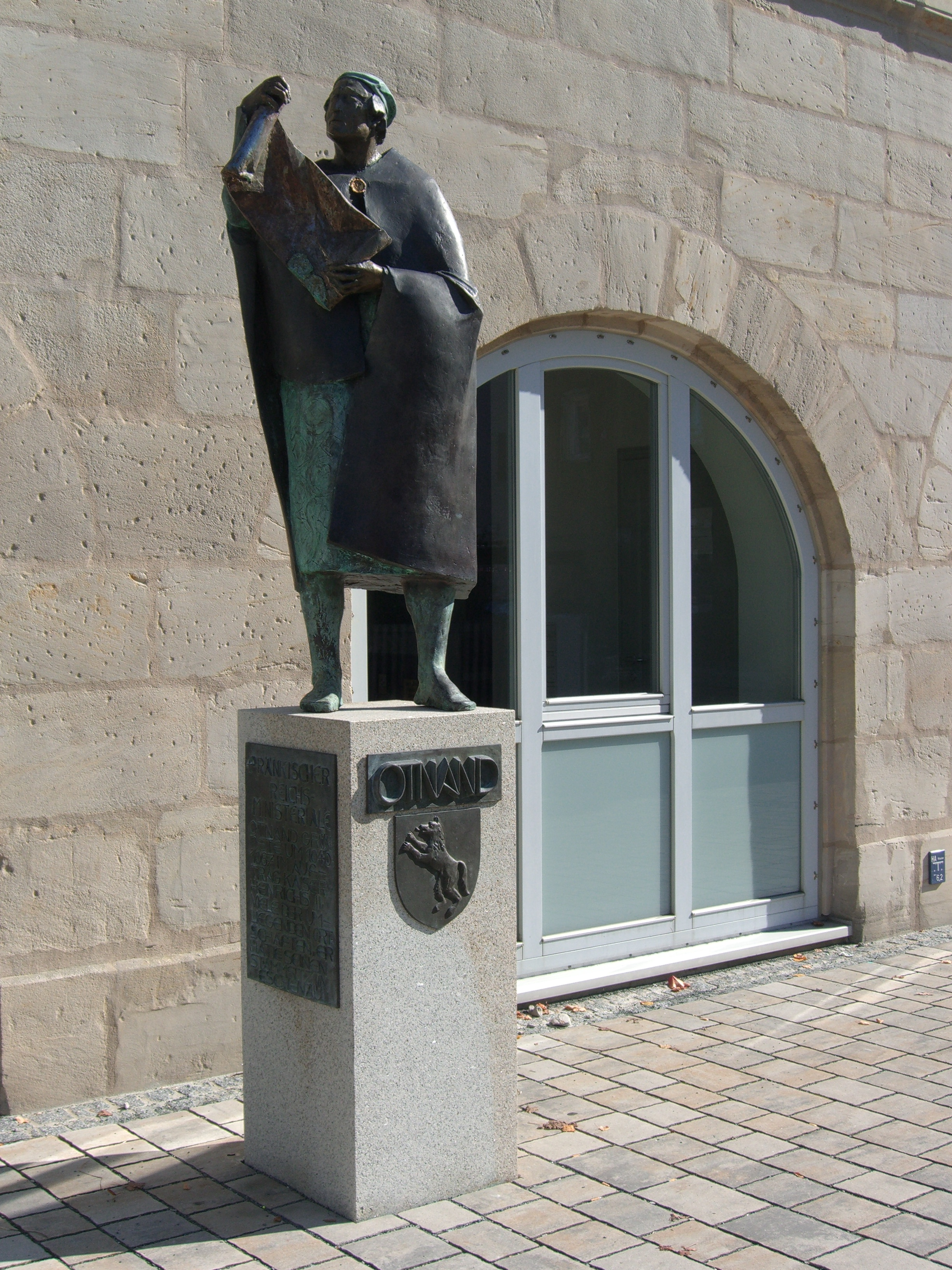 The monument for Otnand the founder of Eschenau near the church in Eschenau, municipality of Eckental, in Bavaria, Germany.